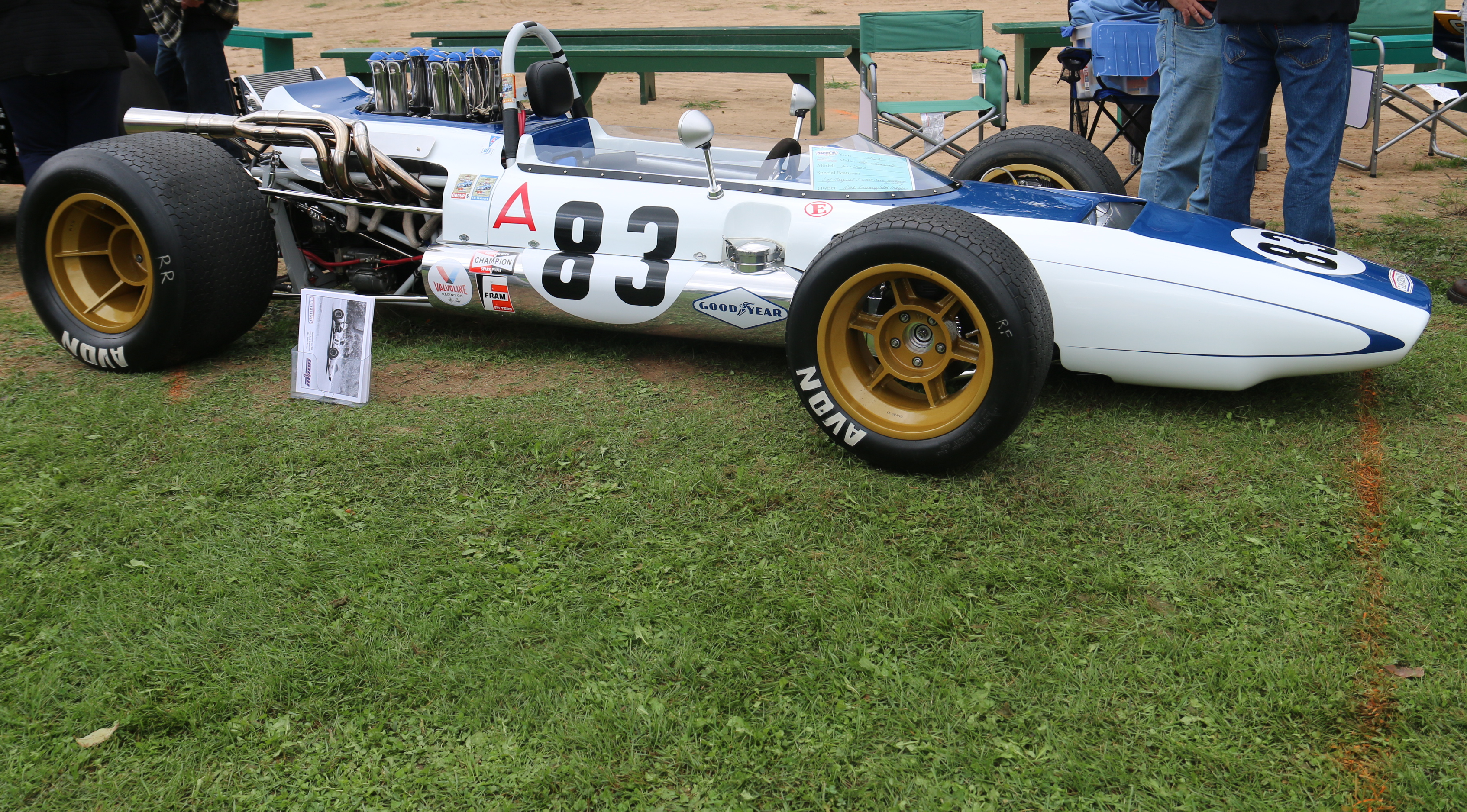 a 1968 LeGrand Formula 5000 race car at the Freedom Area Historical Society exhibit “The Evolution of the Race Car”